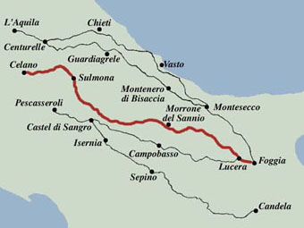 Celano-Foggia sheep-track